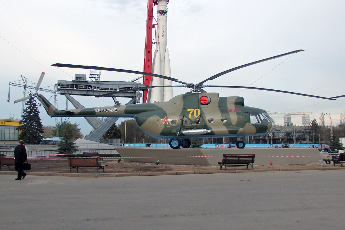 Russian Air Force, 70, Mil Mi8-T